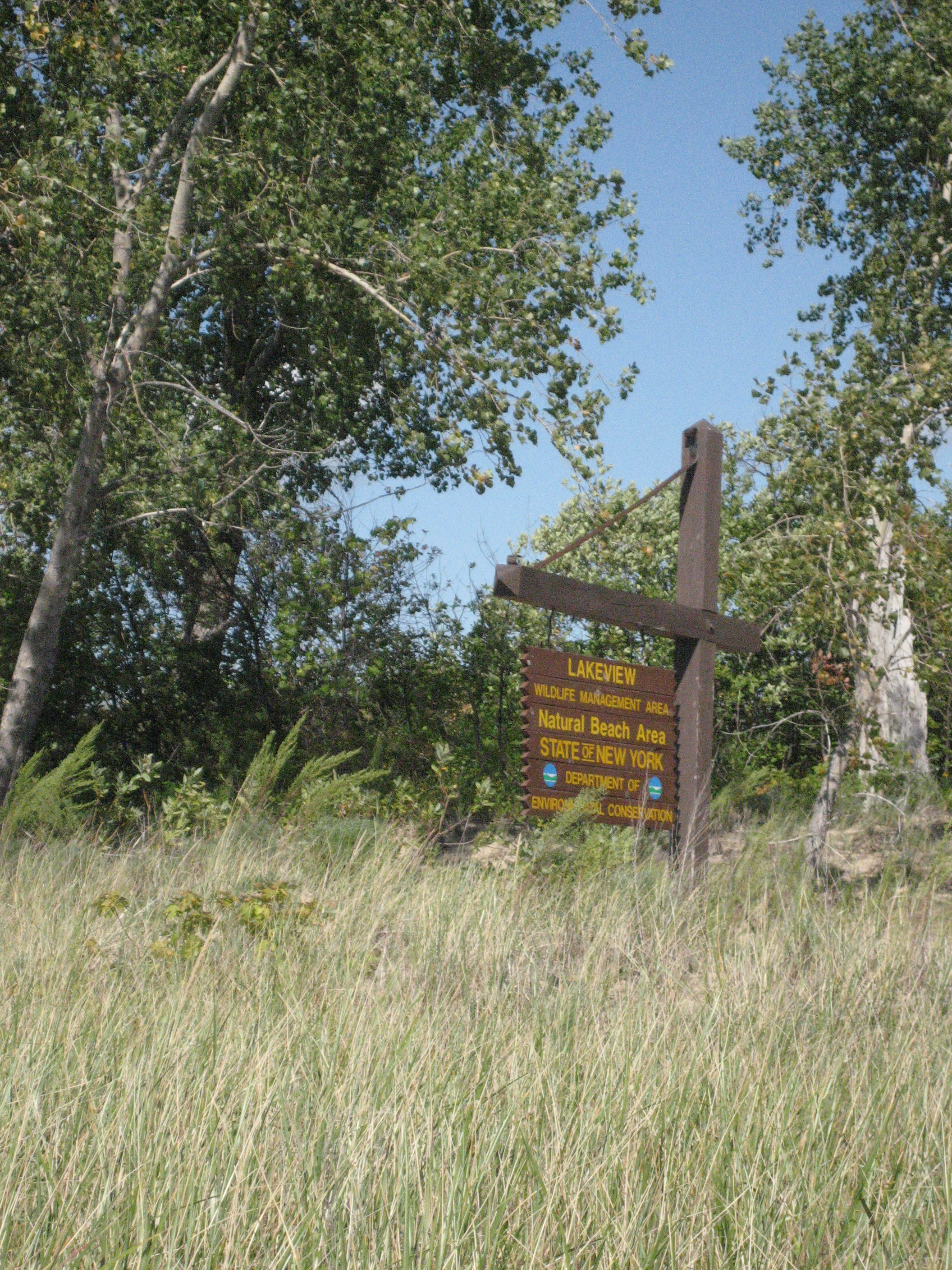 Photograph of the Lakeview Wildlife Management Area marker sign on top of a sandy foredune immediately adjacent to the eastern shore of Lake Ontario in New York State. The flora is typical of the "foredunes" (the low dune closest to the beach) in this region: American beachgrass in the foreground, and eastern cottonwood trees along the crest.